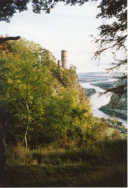 Kinnoul Tower above the River Tay